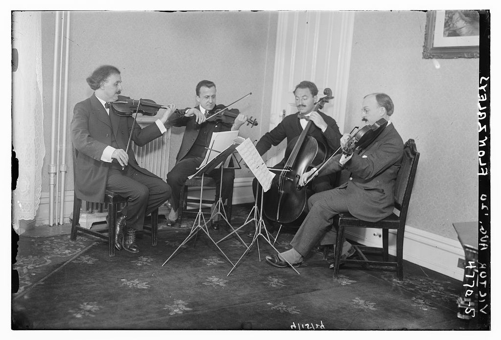 Flonzaleys with their instruments in August 1920